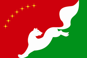 Flag of Krasnozavodsk, Moscow Region, Russia